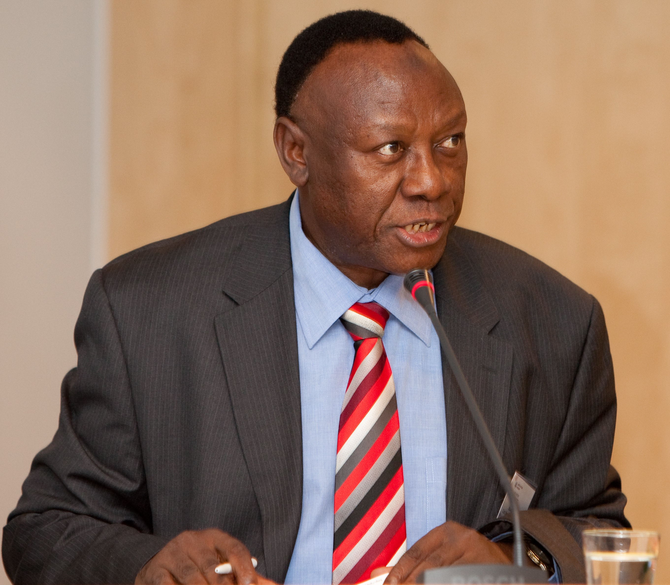 Chair: Ibrahim Lipumba, chairman, Civic United Front of Tanzania.